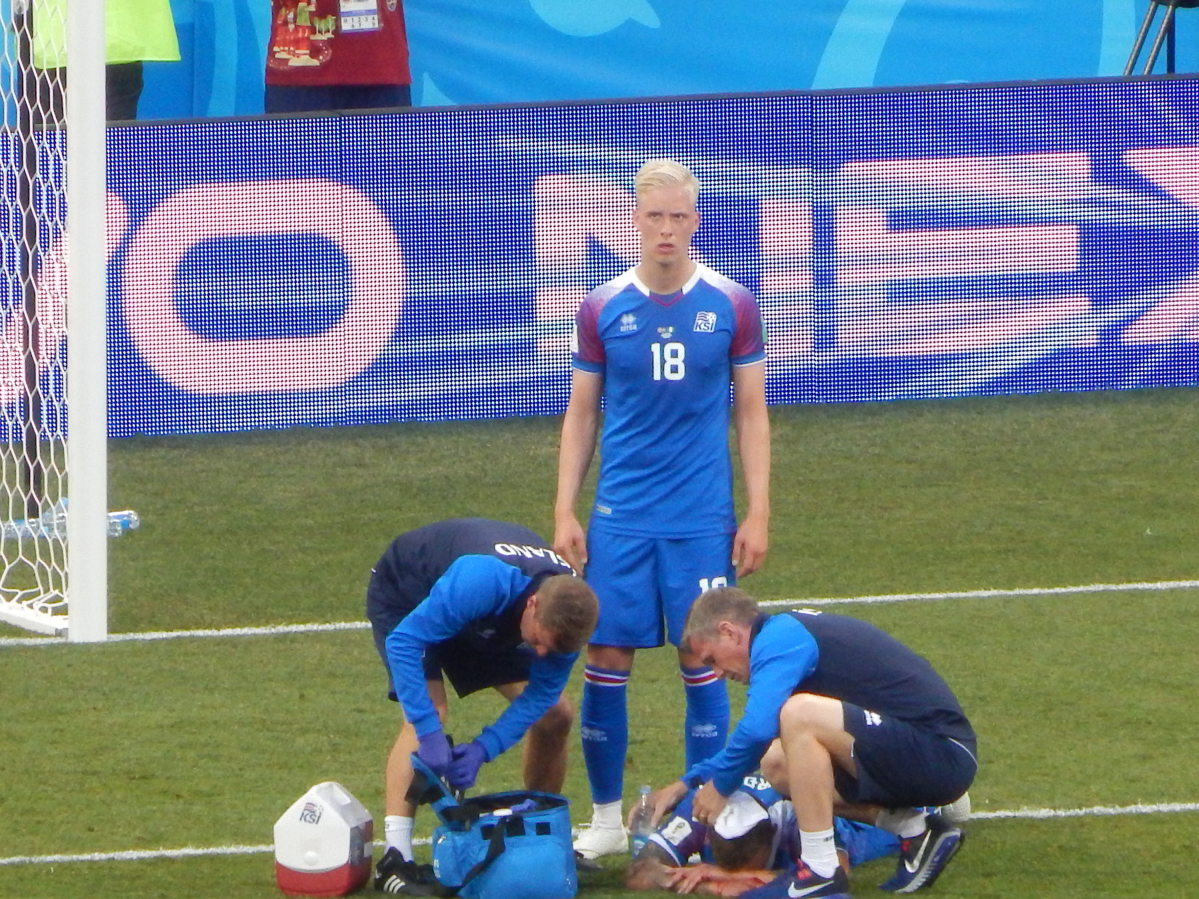 FIFA World Cup 2018, Group D, Nigeria vs. Iceland